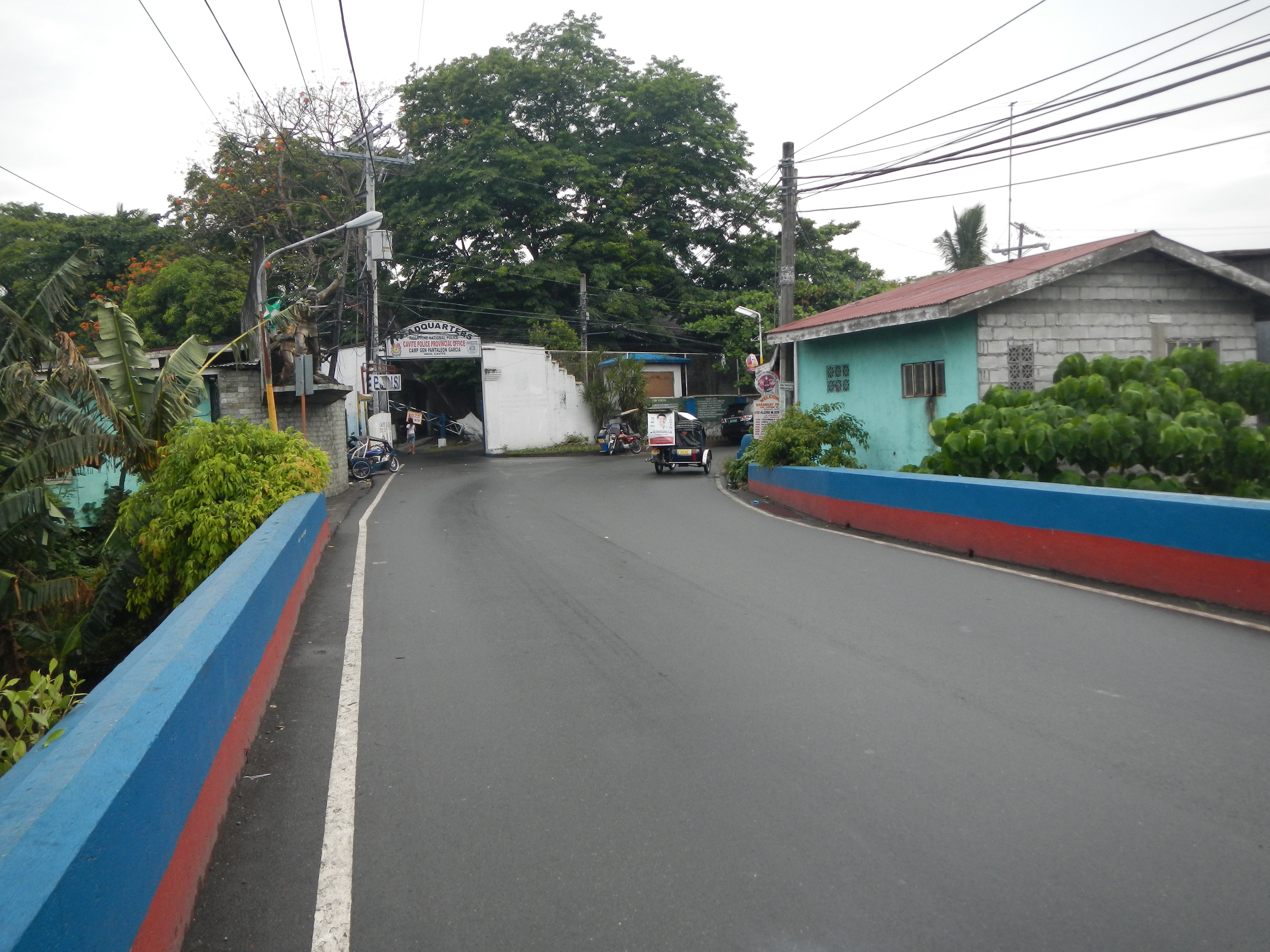 The southern end of the Bridge of Isabel II in Imus, Cavite. At the southern end of the bridge is entrance to Camp Pantaleon Garcia, headquarters of the Cavite Provincial Police in Imus. The headquarters was the former location of the Casa Hacienda (Estate House) of the Augustinian Recollects who used to own the Hacienda de Imus (Imus Estate), which covered the present Imus, Dasmarinas and parts of Kawit.